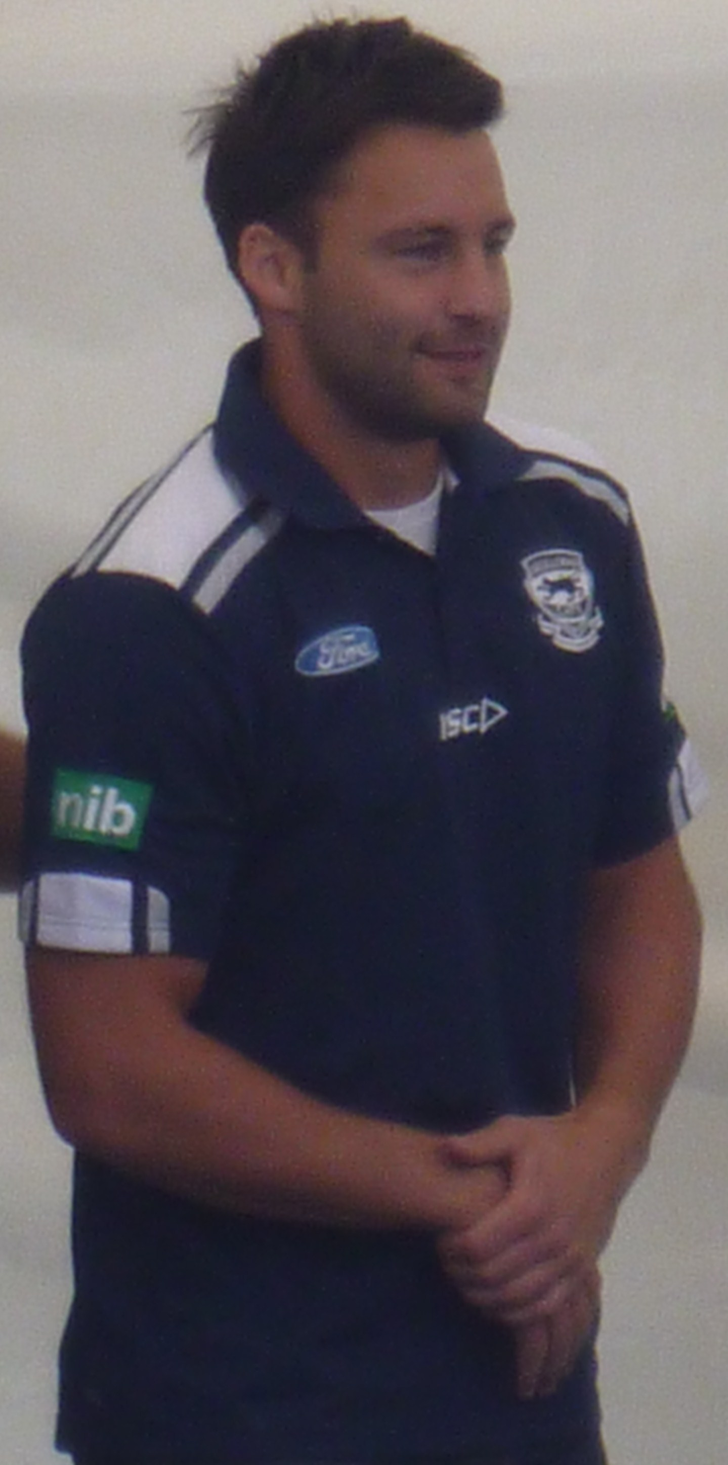 Jimmy Bartel at the Geelong Football Club's 2011 AFL Premiership Parade in Geelong, Victoria, Australia.